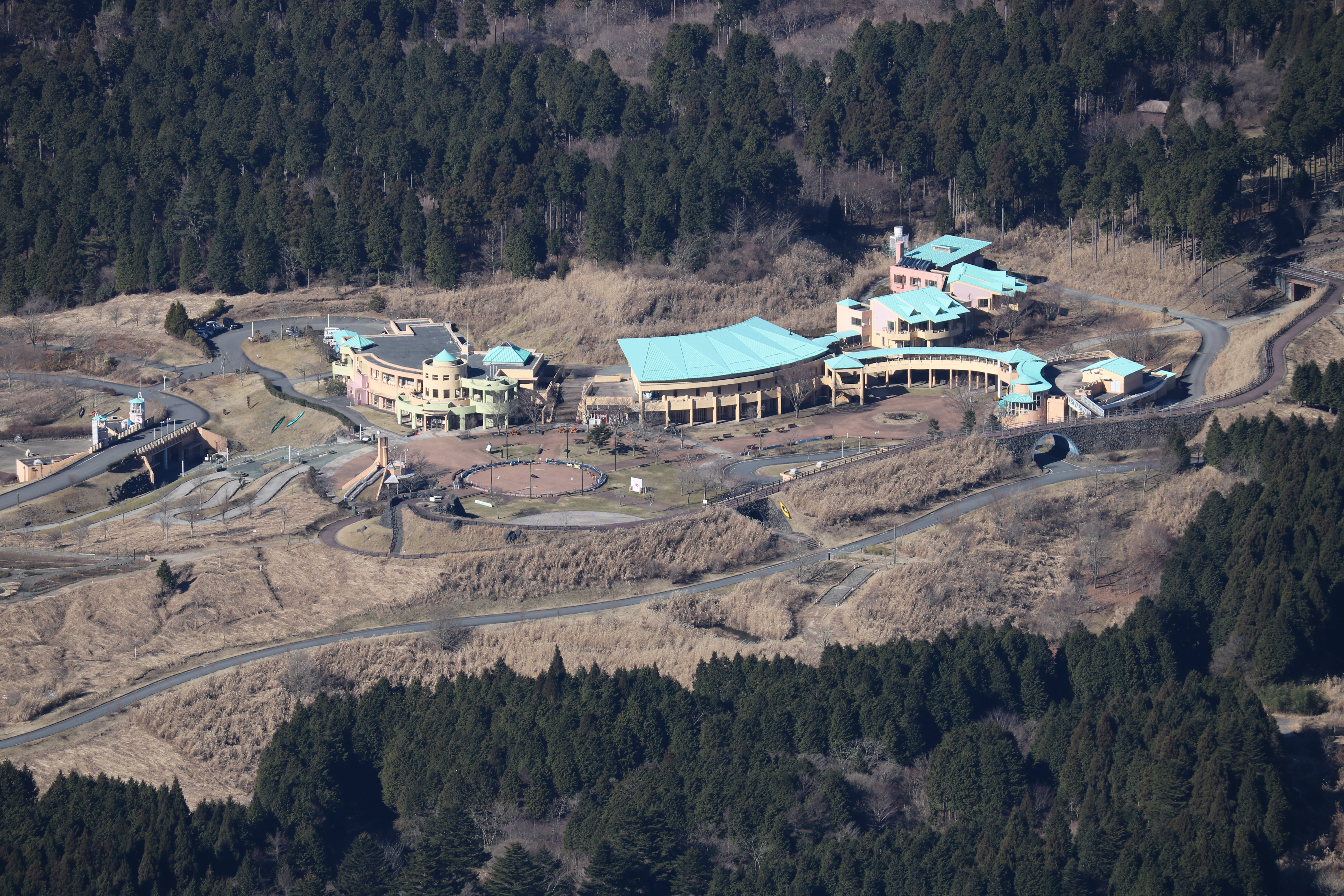 Mount Fuji Children's World seen from Mount Echizen in Fuji, Shizuoka prefecture, Japan.